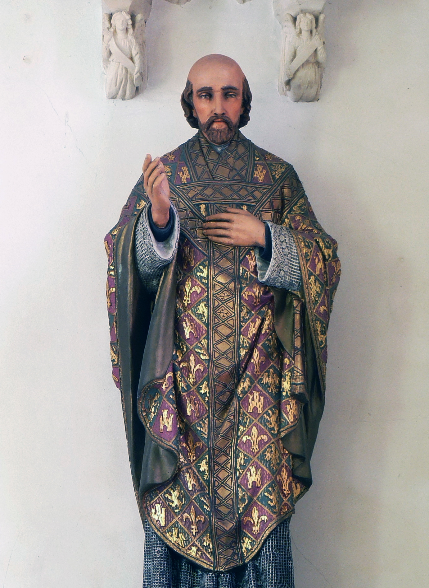 Statue of the blessed Thomas Hélye of Biville, polychrome plaster, second half of the XIXth c., Saint-Pierre church of Biville (Manche, France).